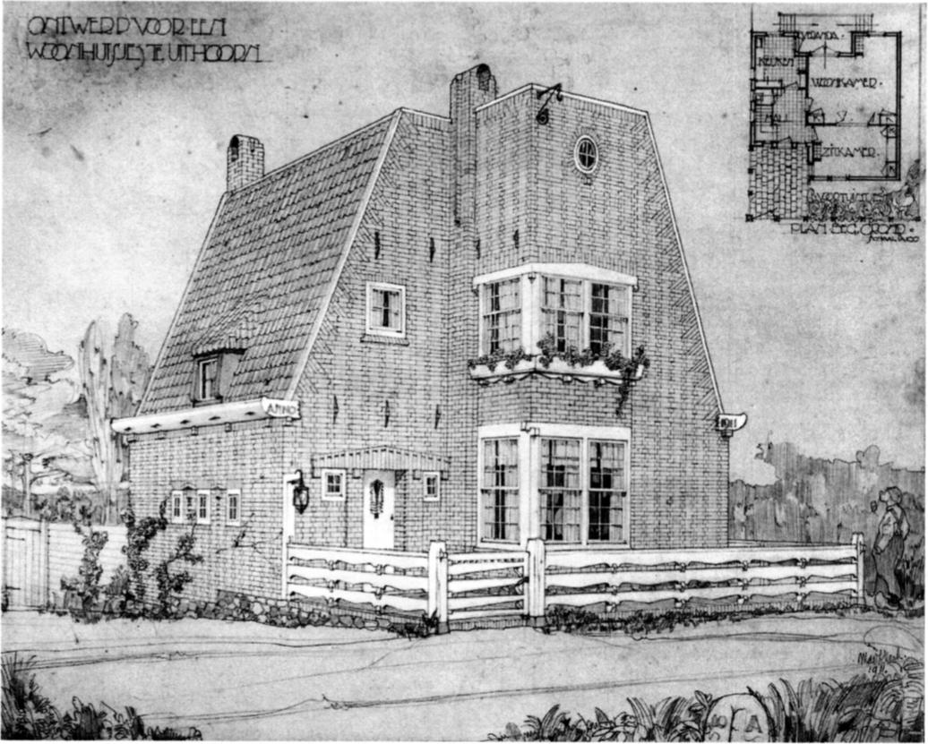 Michel de Klerk. Design for a house, perspective drawing and plan ground floor. 1911. Rotterdam, Netherlands Architecture Institute.